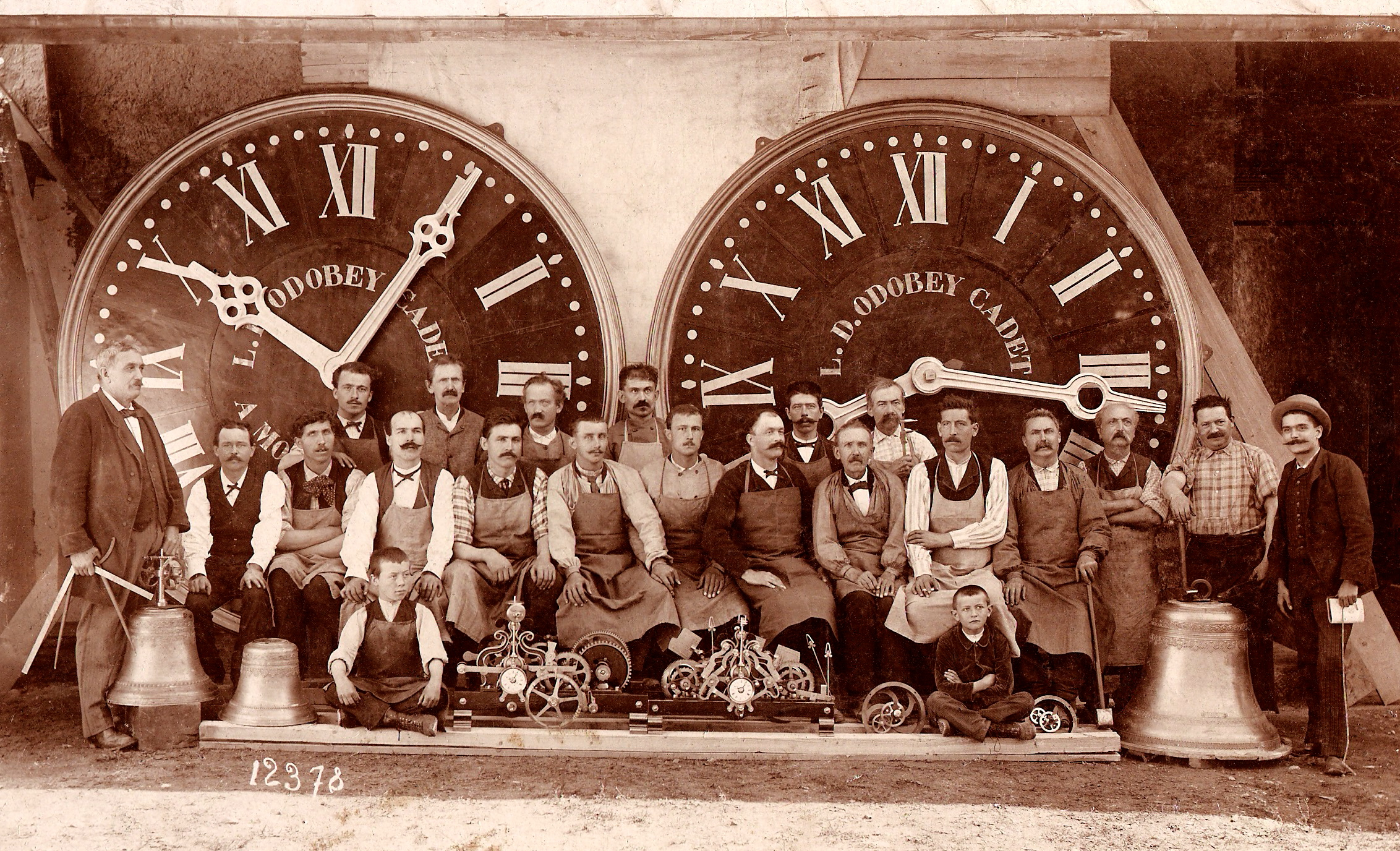 Tower Clock manufacturer in Morez (France) - Louis-Delphin Odobey Cadet.